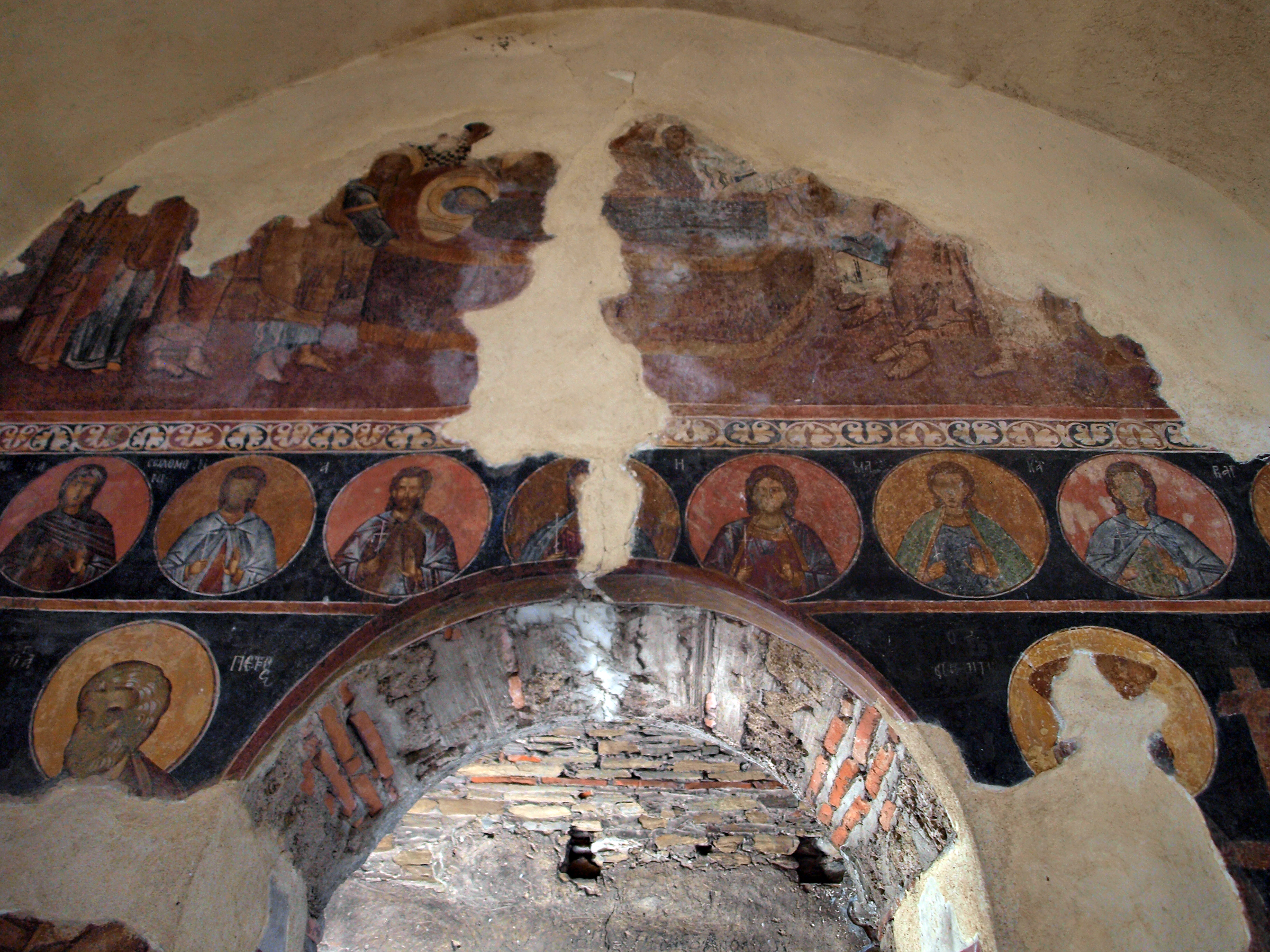 Church of the Holy Mother of God in Asen's Fortress, Asenovgrad. Bulgaria: frescoes above the entrance to the nave